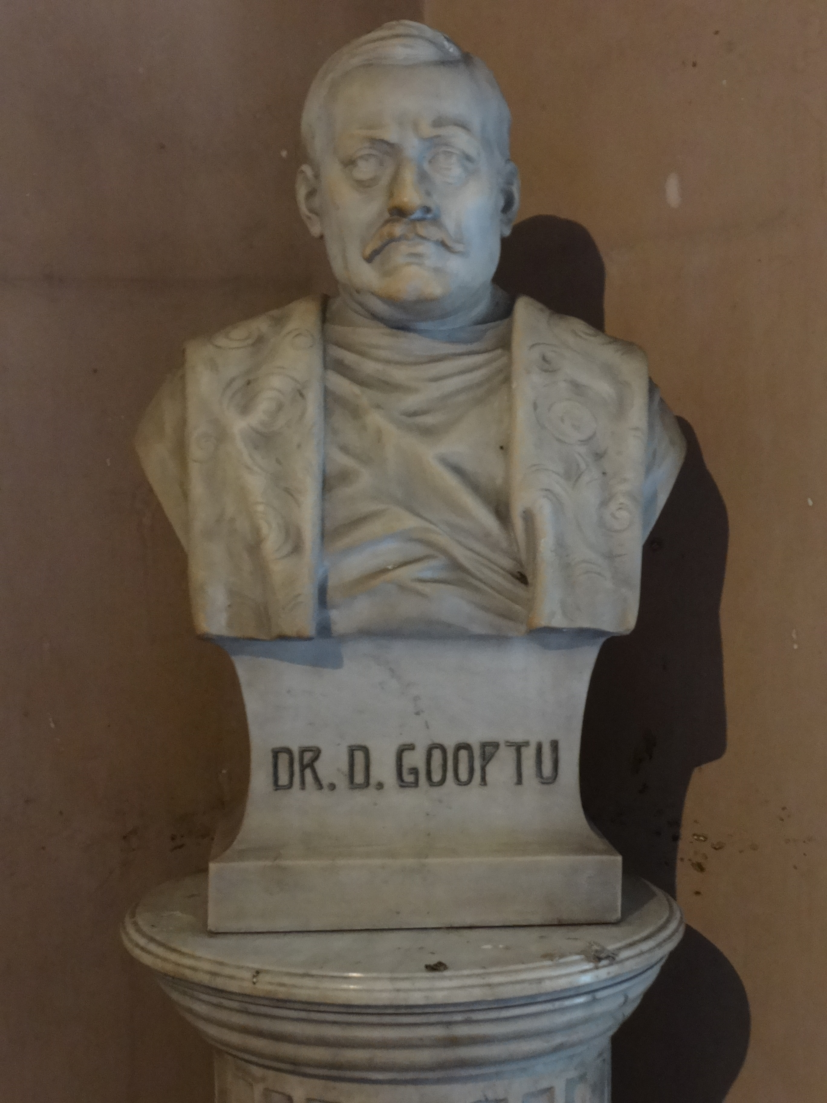 my ancestor